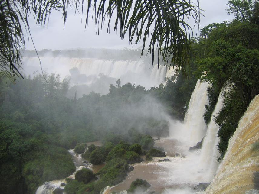 Iguazu Falls, in Misiones (Argentina).